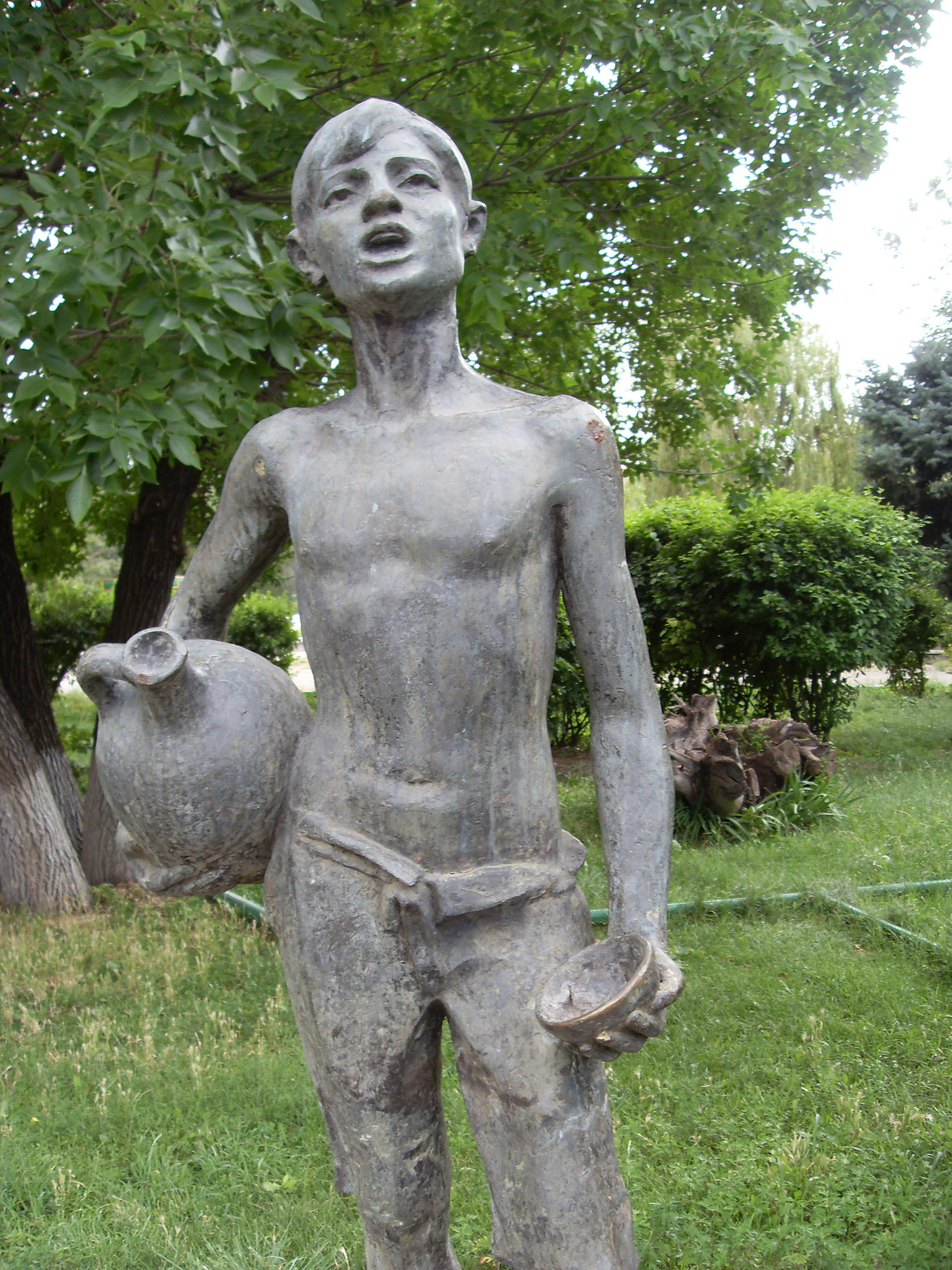 Water-Selling Boy [Jravacharr tghan](1970), sculpture by Hovhannes Bejanyan (1915-1976), Shahumyan square, Yerevan 6/208